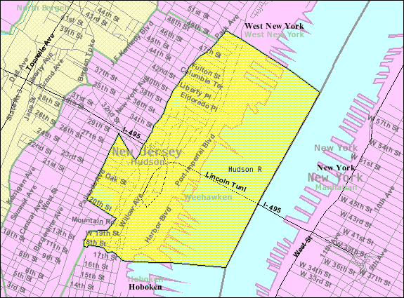 Census Bureau map of Passaic